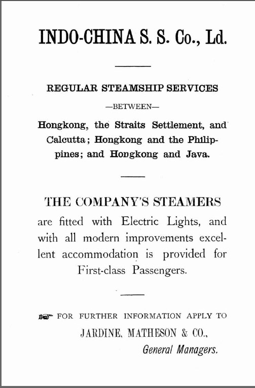 Indo-China Steam Navigation Company Ltd. advertisement 1923